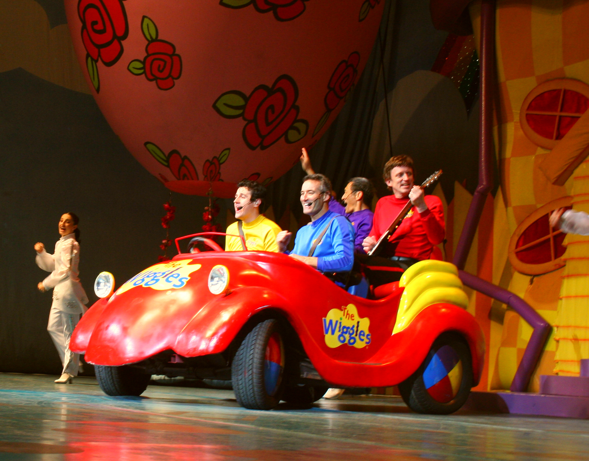 The Wiggles performing at the MCI Center, November 8, 2007 with the new yellow Wiggle, Sam Moran. Photo by Anthony Arambula